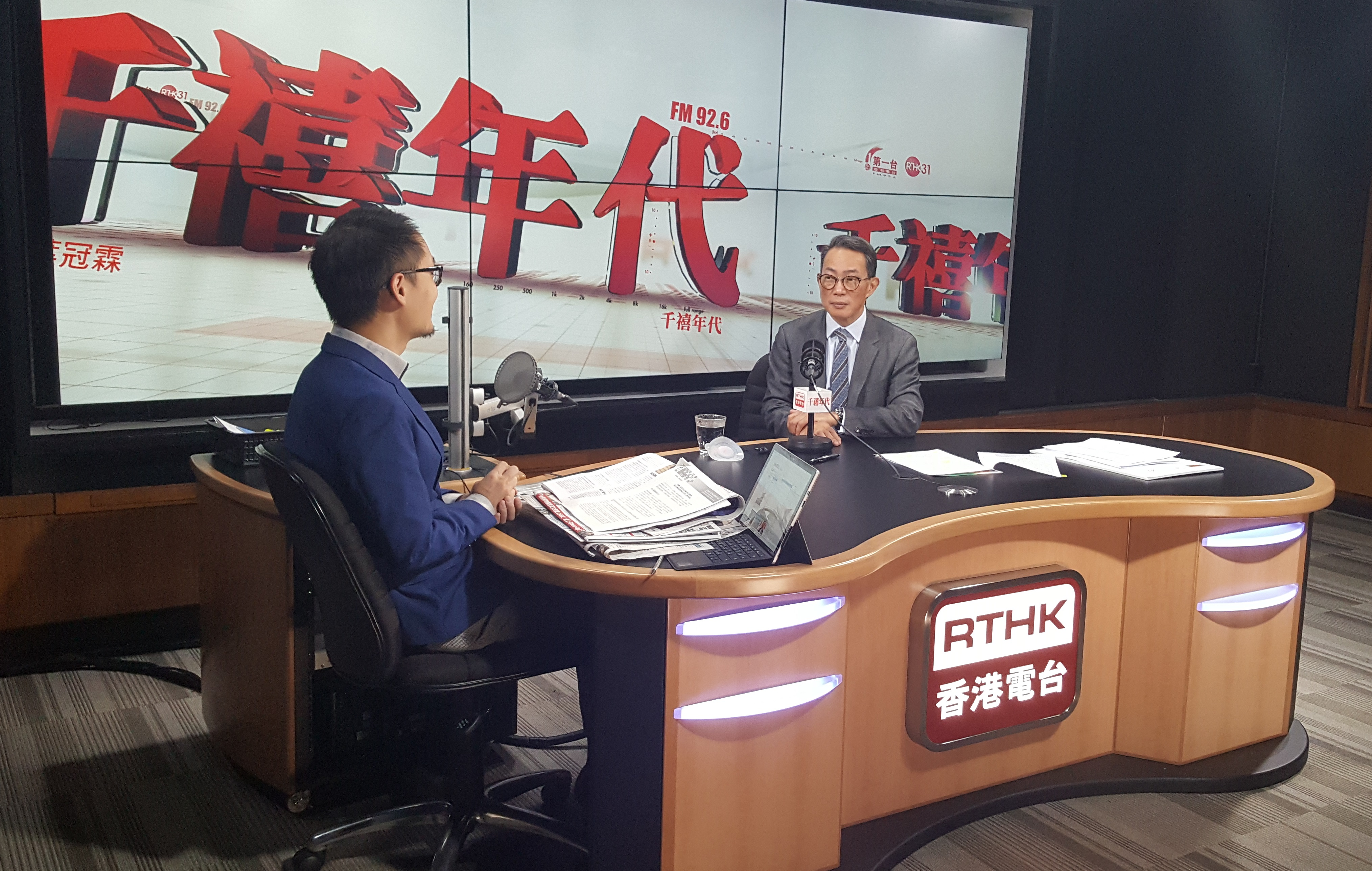 Jonathan Yip of RTHK radio show Hong Kong 2000 interviews Stephen Wong, privacy commissioner of Hong Kong.